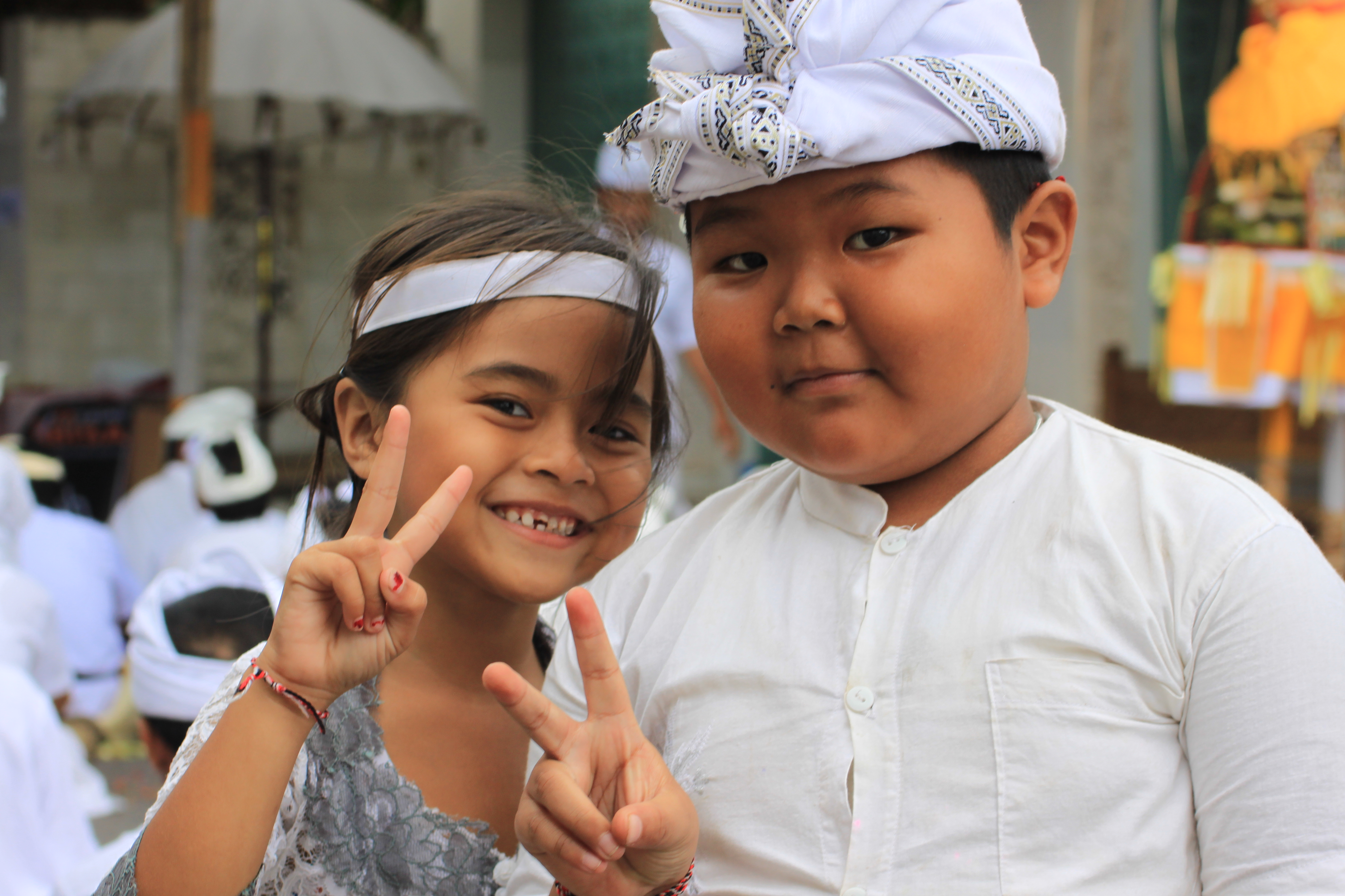 Balinese children wearing costume and headband pose in front of camera making peace sign.